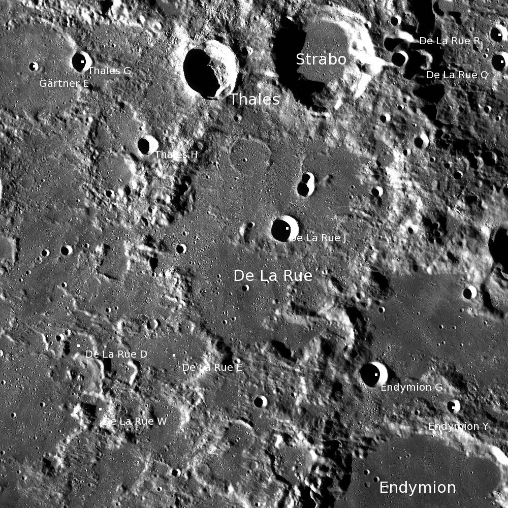 Moon craters De La Rue, Thales and Strabo with satellite features (north at top; detail of LRO - WAC north pole mosaic)